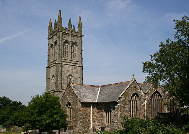 Probus Church from the Southeast.